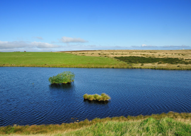 Looking Down on Llyn-y-Tarw A great days walk on what may have been the last day of summer - or was it the first day of summer!